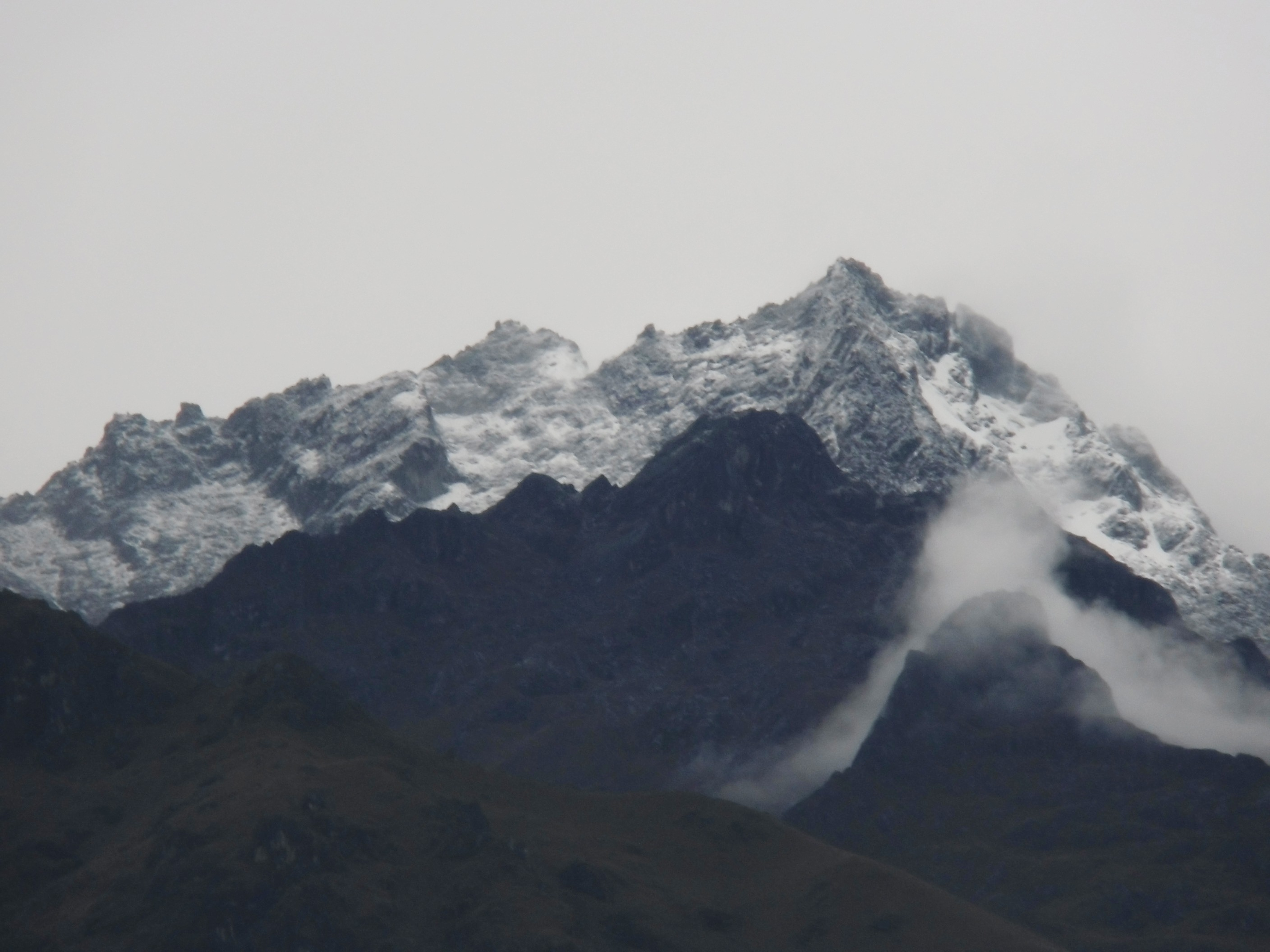 This is one of the highest places in Venezuela at 4,765 meters above sea level in the Andes of Mérida.